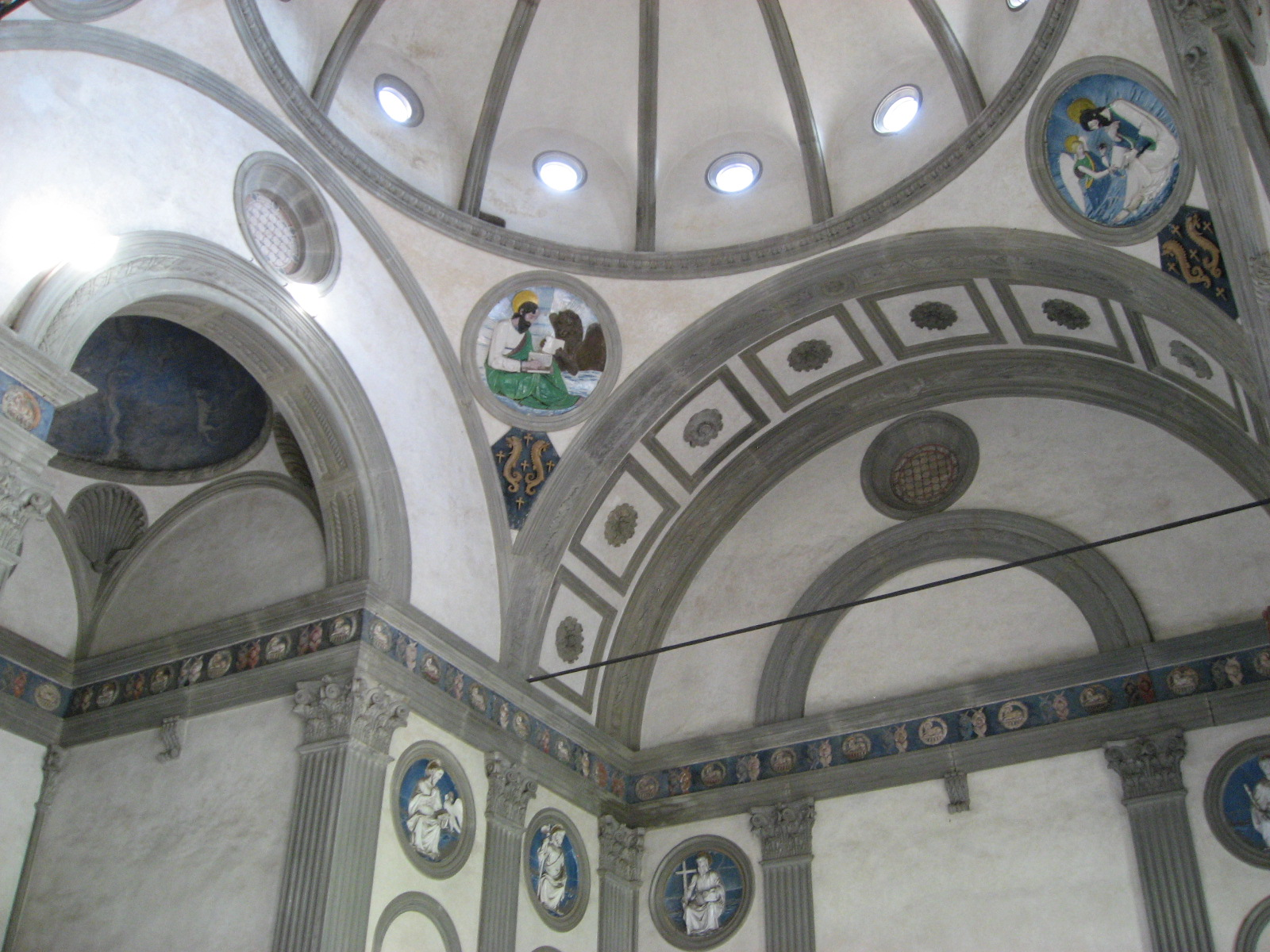 Interior of the Pazzi Chapel.